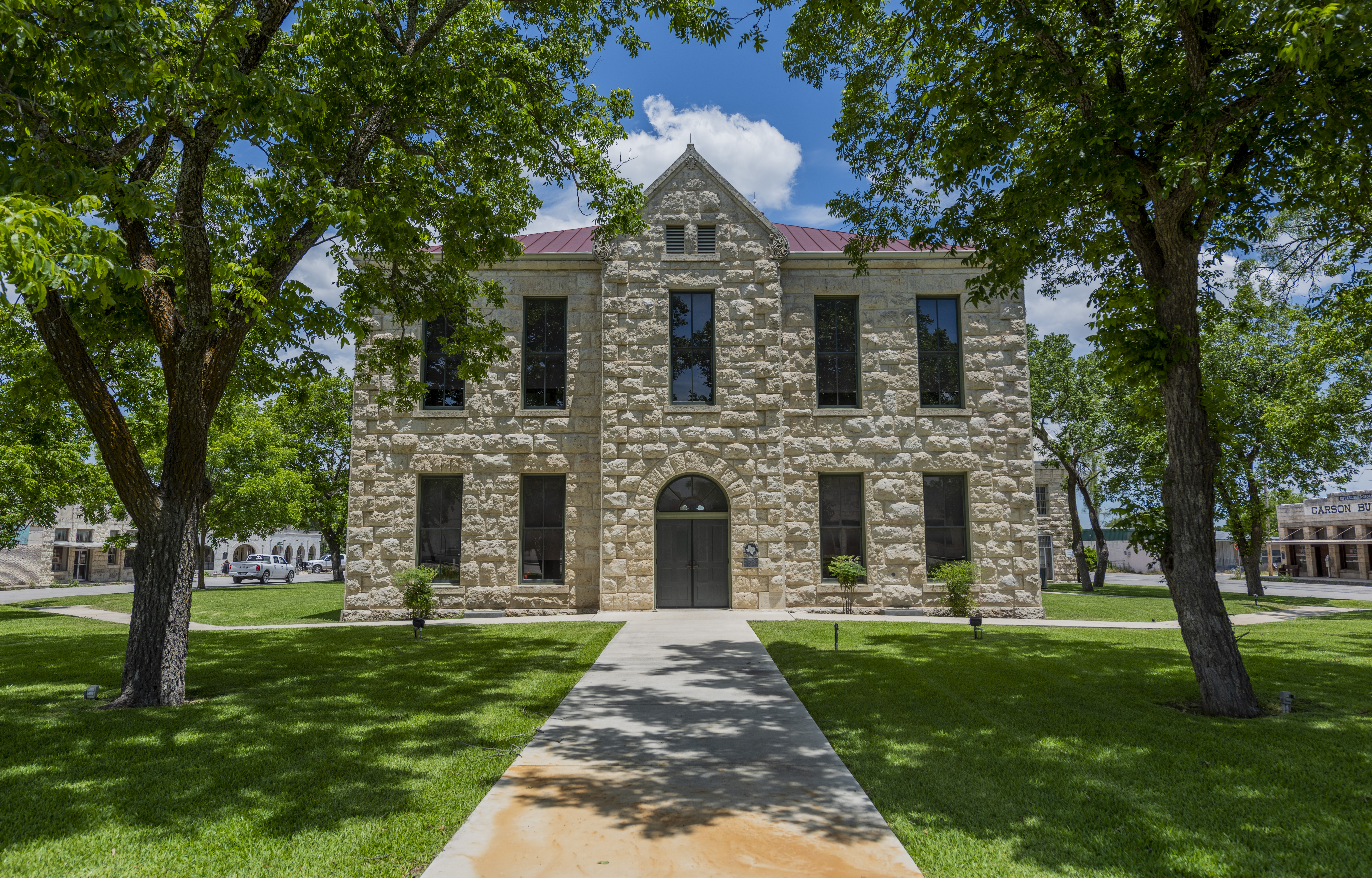 Image of the Edwards County courthouse located in Rocksprings, Texas. Image taken in May 2020.